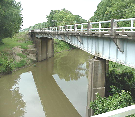 A bridge across the Noxubee River at Macon.